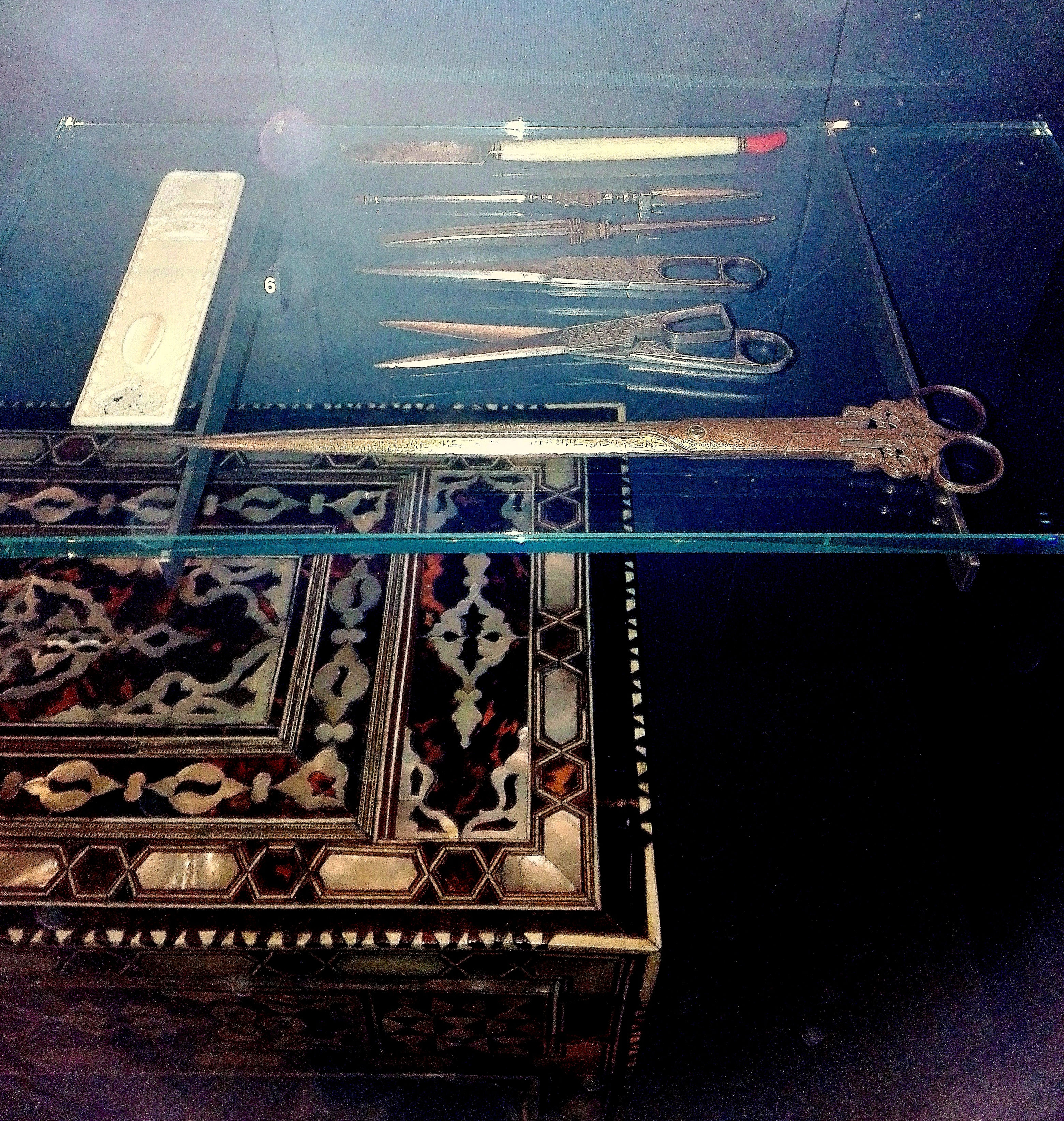 Caligraphic tools from Turkey, 19 century on display at David Collection, Copenhagen. Ivory tray for cutting pens, two pairs of scissors, two steel pens for single or parallel strokes, a knife. The caligrapher placed a reed pen on the tray and cut it with the knife to the desired stroke thickness. The tray is decorated with a dervish hat.